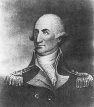 Credited to the U.S. Senate Historical Office